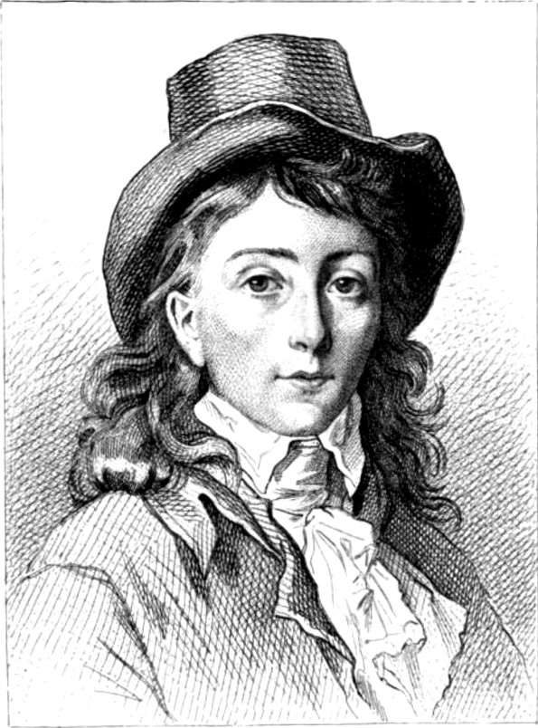 Portrait of French painter Antoine-Jean Gros (1771–1835), c. 1791